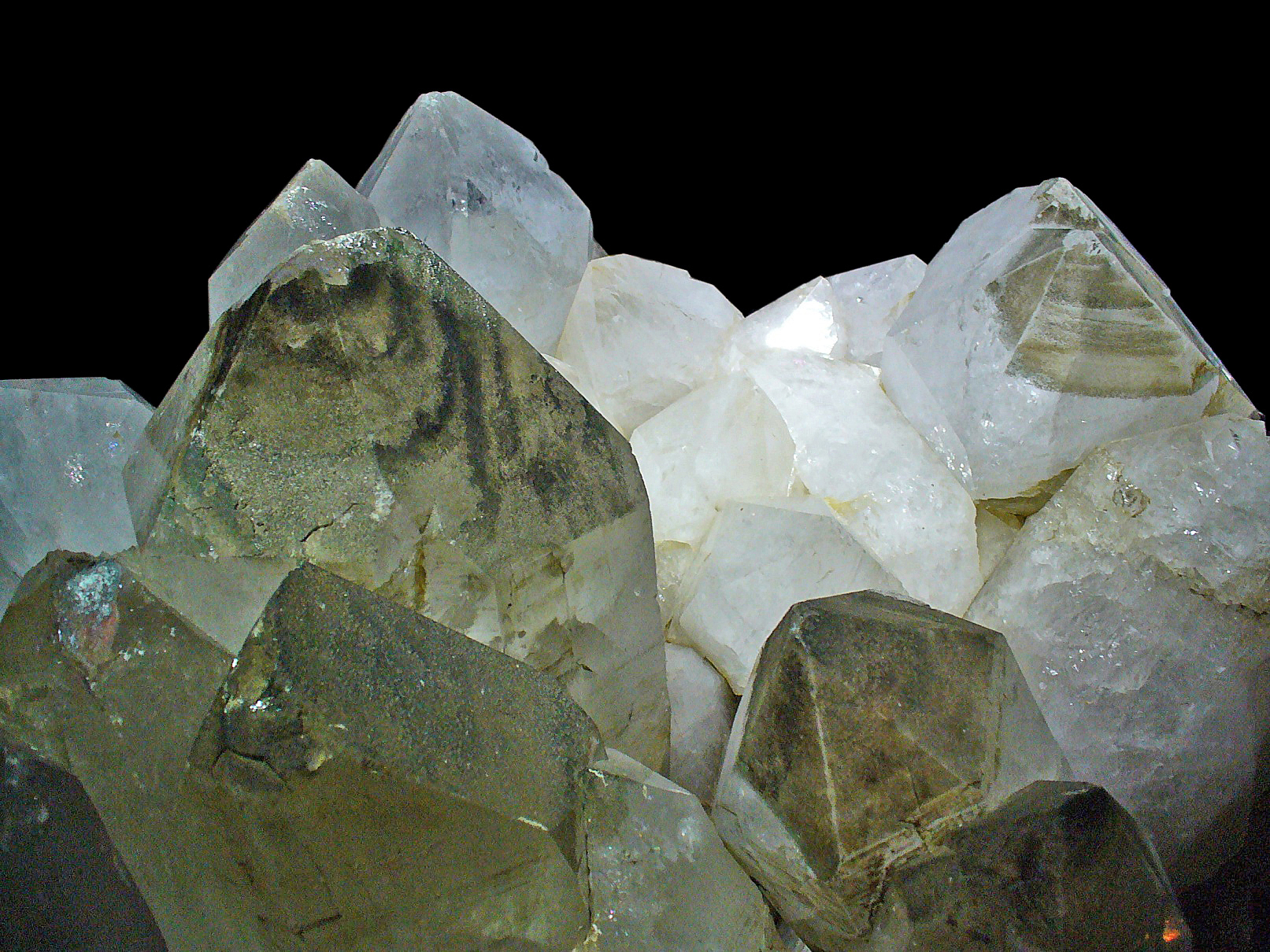 Quartz, Rock crystal, SiO2; Staatliches Museum für Naturkunde Karlsruhe, Germany. Used in homeopathy as remedy: Silicea (Sil.)